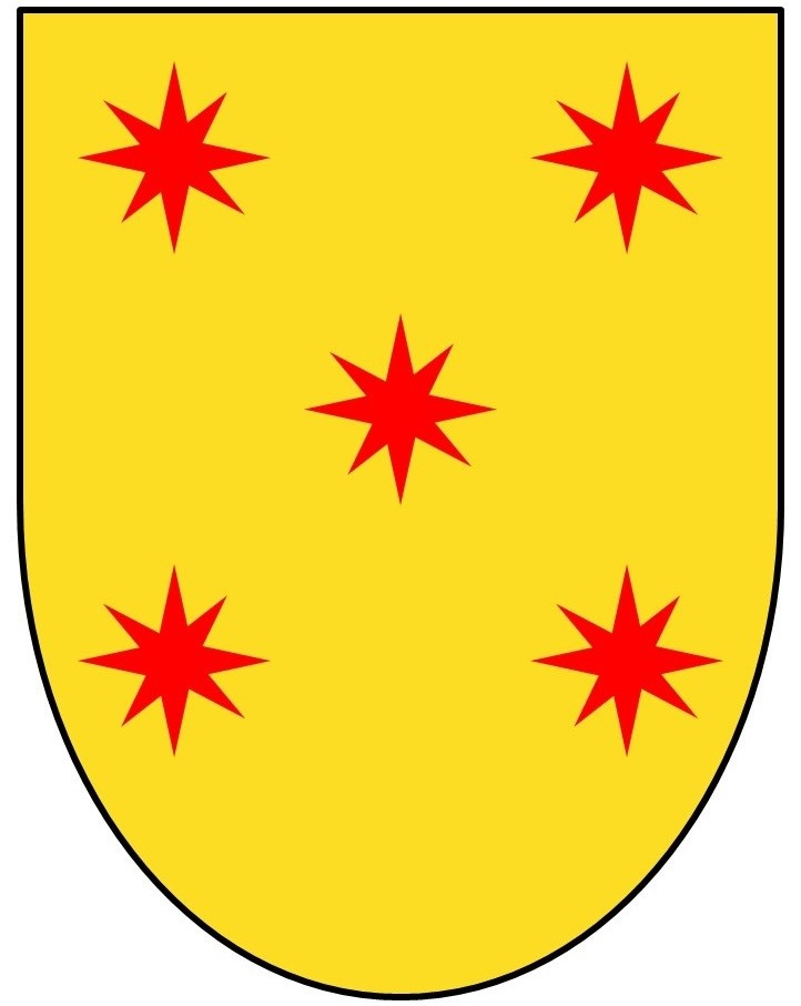 Coutinho coat of arms